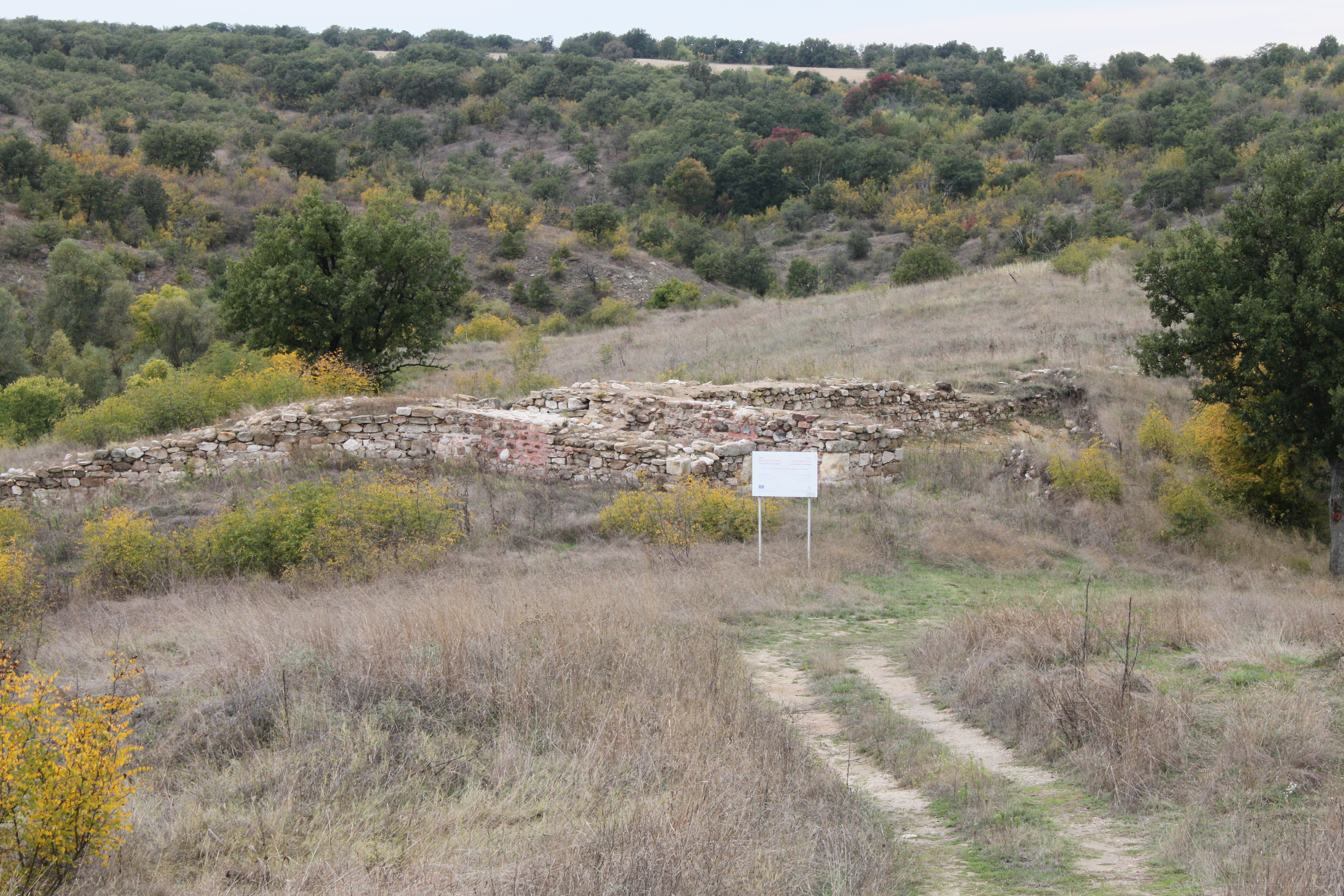 Castra rubra, Bulgaria